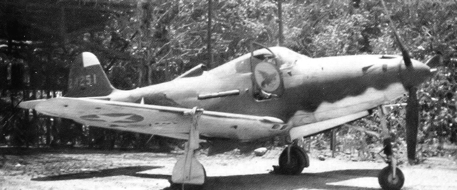 29th Fighter Squadron Bell P-39K-1-BE Airacobra 42-4251, Madden Field, Panama. lost Jul 3, 1943. MACR 11